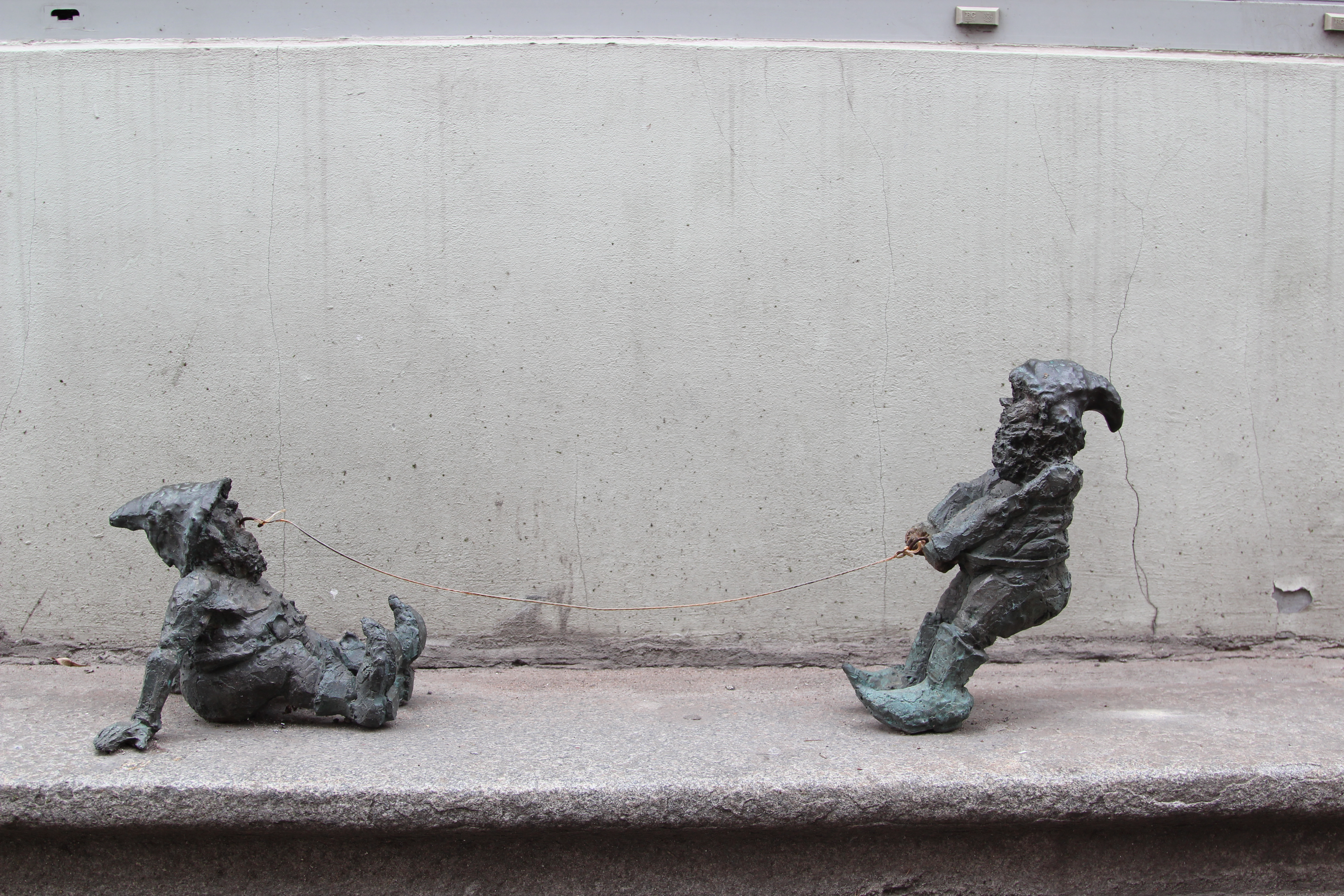 Royaldenters (RoyalDenciaki) in Royal Dent on Leszczyńskiego 5